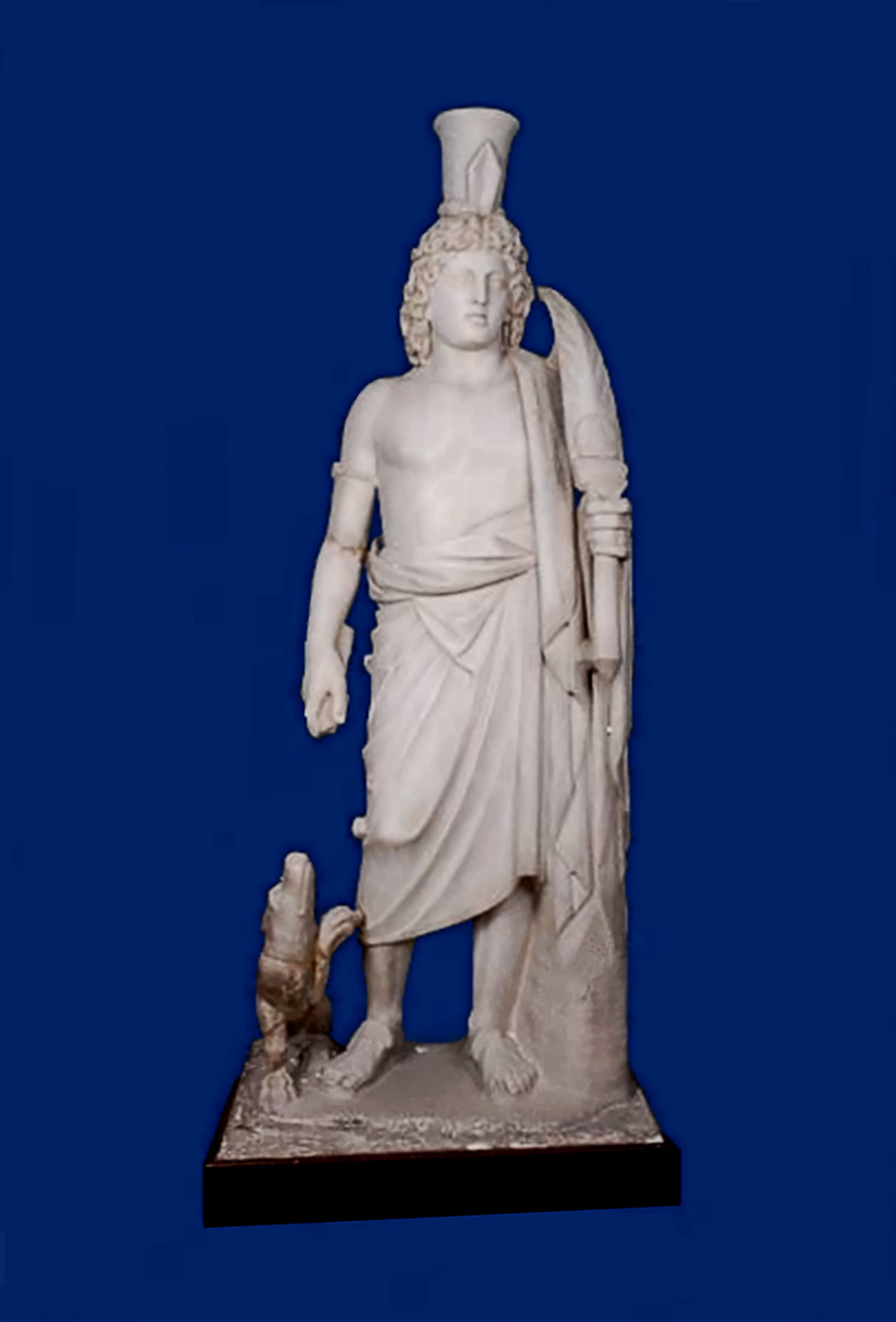 Hermanubis BA Antiquities Museum